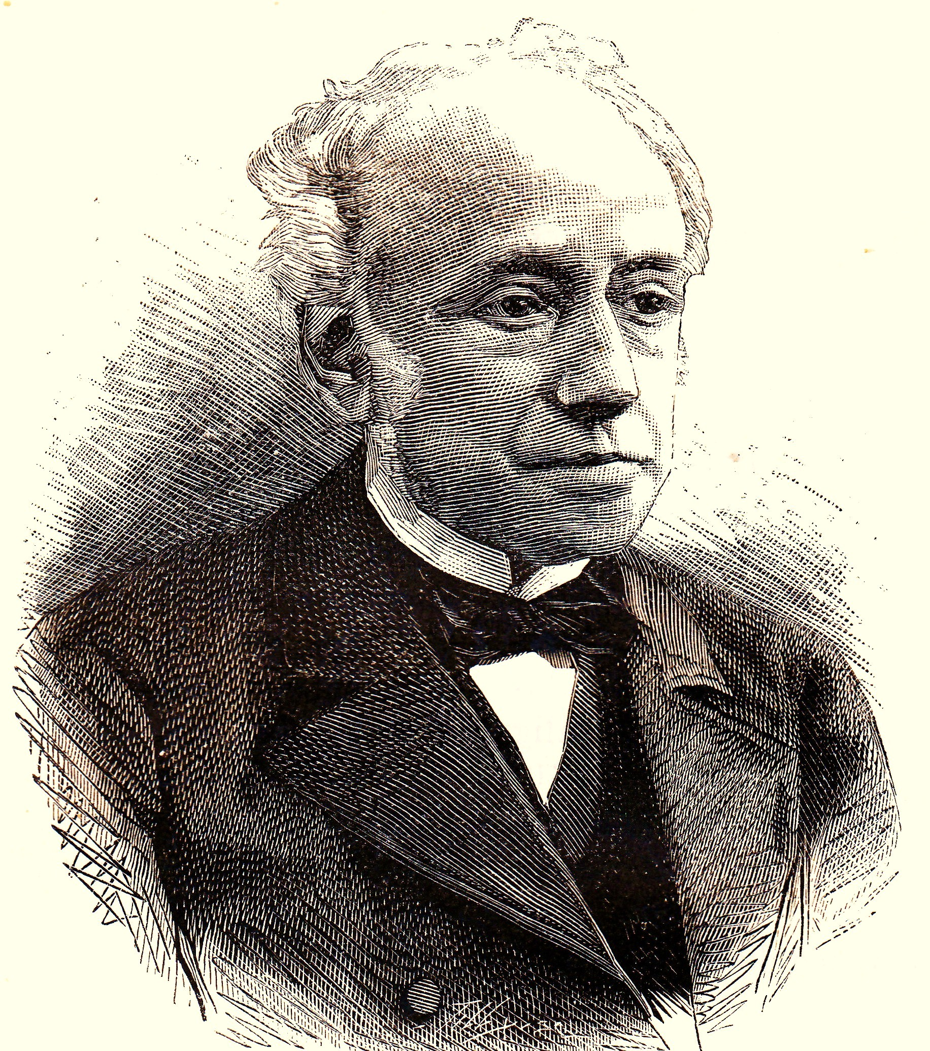 Minister van staat mr. M.H. Godefroi